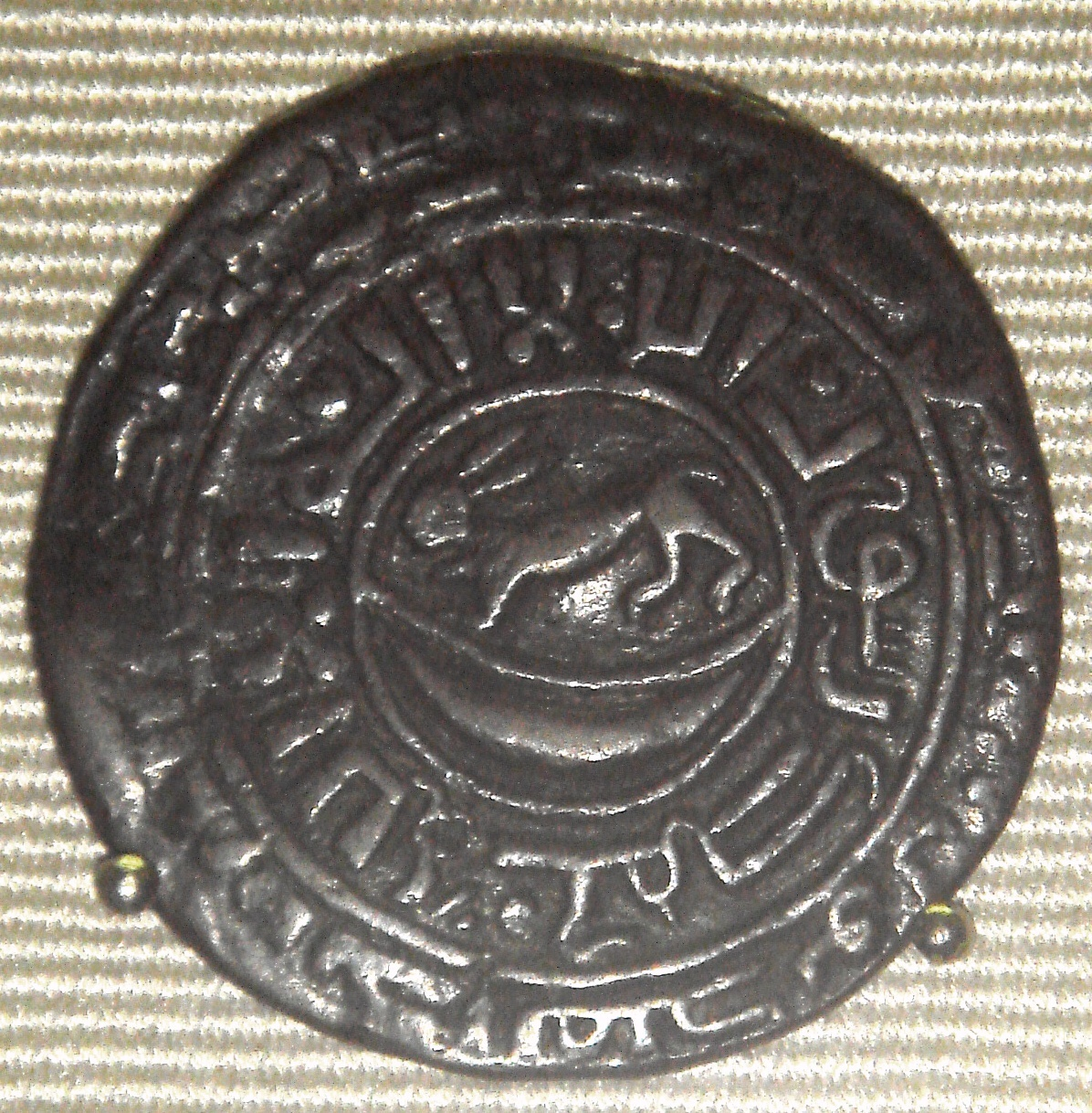 A Coin from the Mongol empire period (with hare symbol). The Arabic writings depicts Shahada Which is the motto for most Islamic empires.